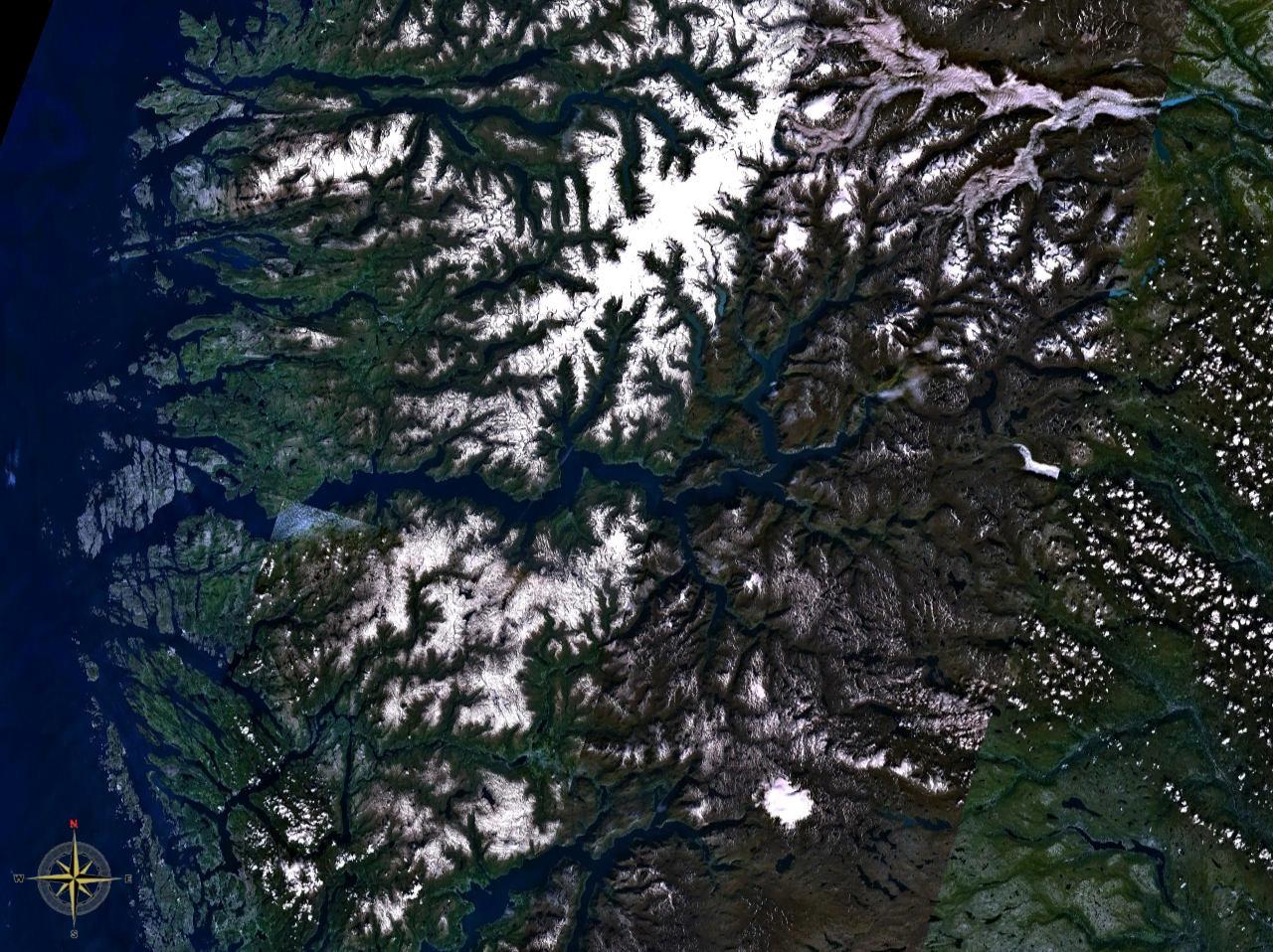 Satellite imagery of Sognefjord in Sogn og Fjordane, the longest fjord in Norway.